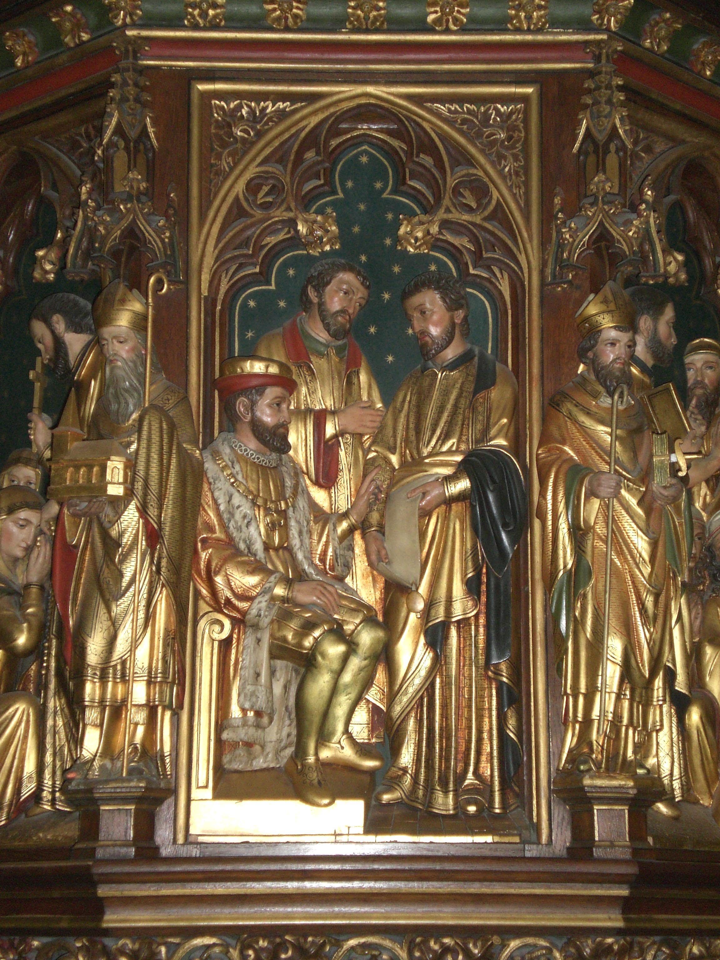 Jesuit Church "De Krijtberg" (Sint-Franciscus Xaveriuskerk), Singel 448, 1017 AV Amsterdam, --- Pulpit (Detail): Ferdinand of Austria receives Petrus Canisius